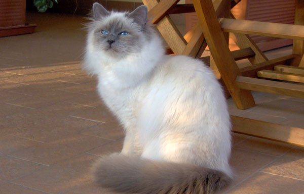 Birman cat, blue colourpoint.